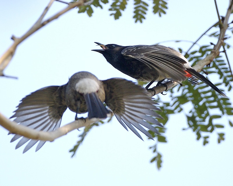 Red-vented Bulbul Pycnonotus cafer ssp Pycnonotus cafer bengalensis 11th. December 2007 Jahangir University campus, Dhaka, Bangladesh _Q0S2796